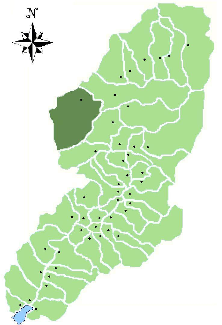 Map of the Comune di Corteno Golgi, Valle Camonica